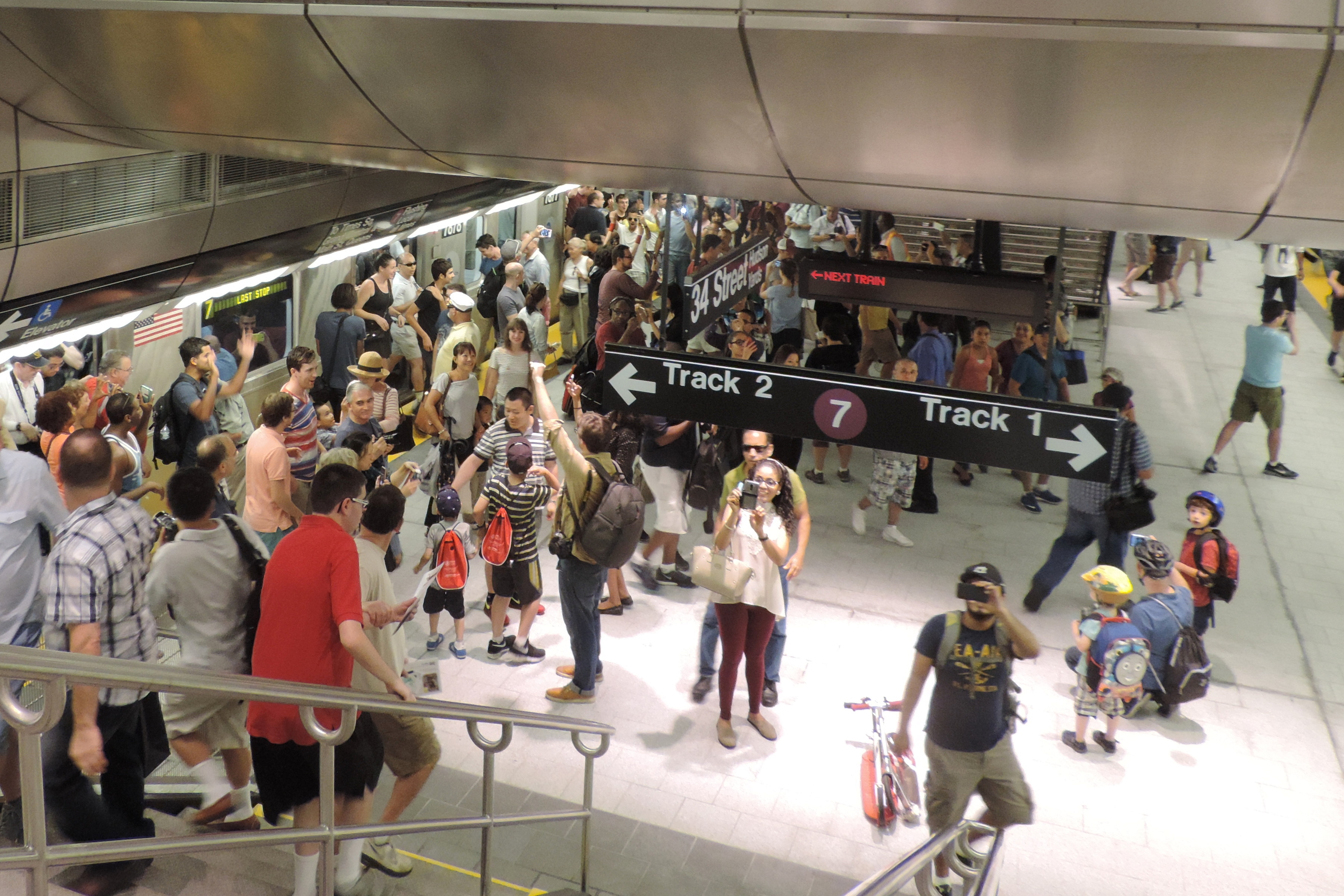 Looking south down one of the southern stairways at first revenue train to arrive at 34th Javitts